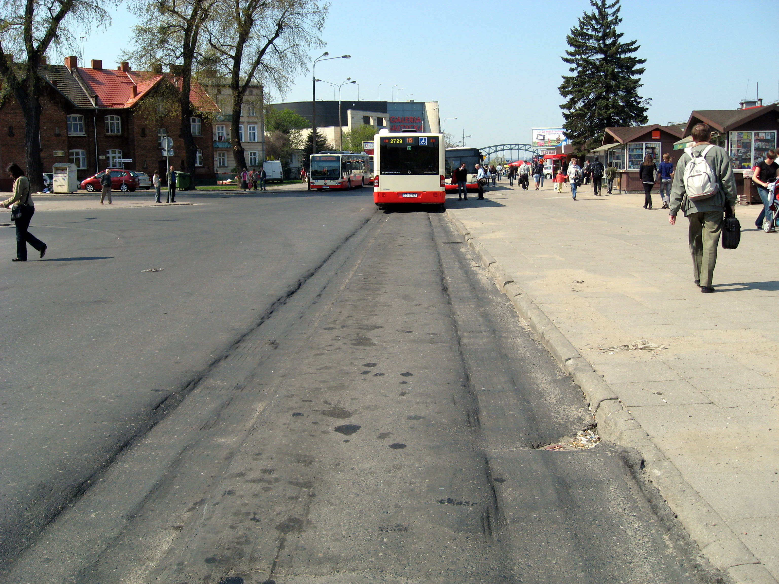 Ruts in Gdańsk, Poland.